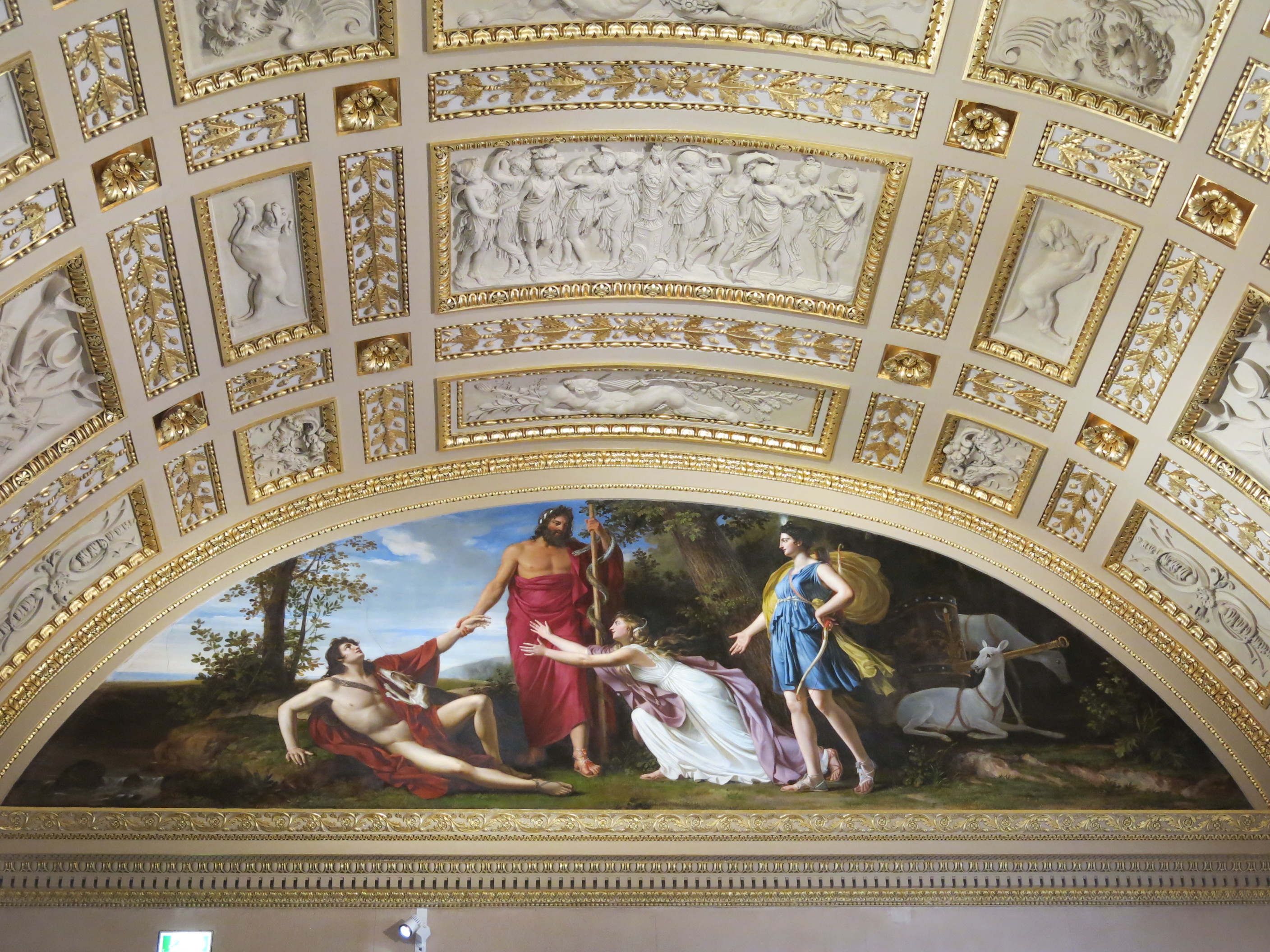 Diana room - Diana returning to Aricia Hippolytus resuscitated by Asclepius. Louvre museum (Paris, France).